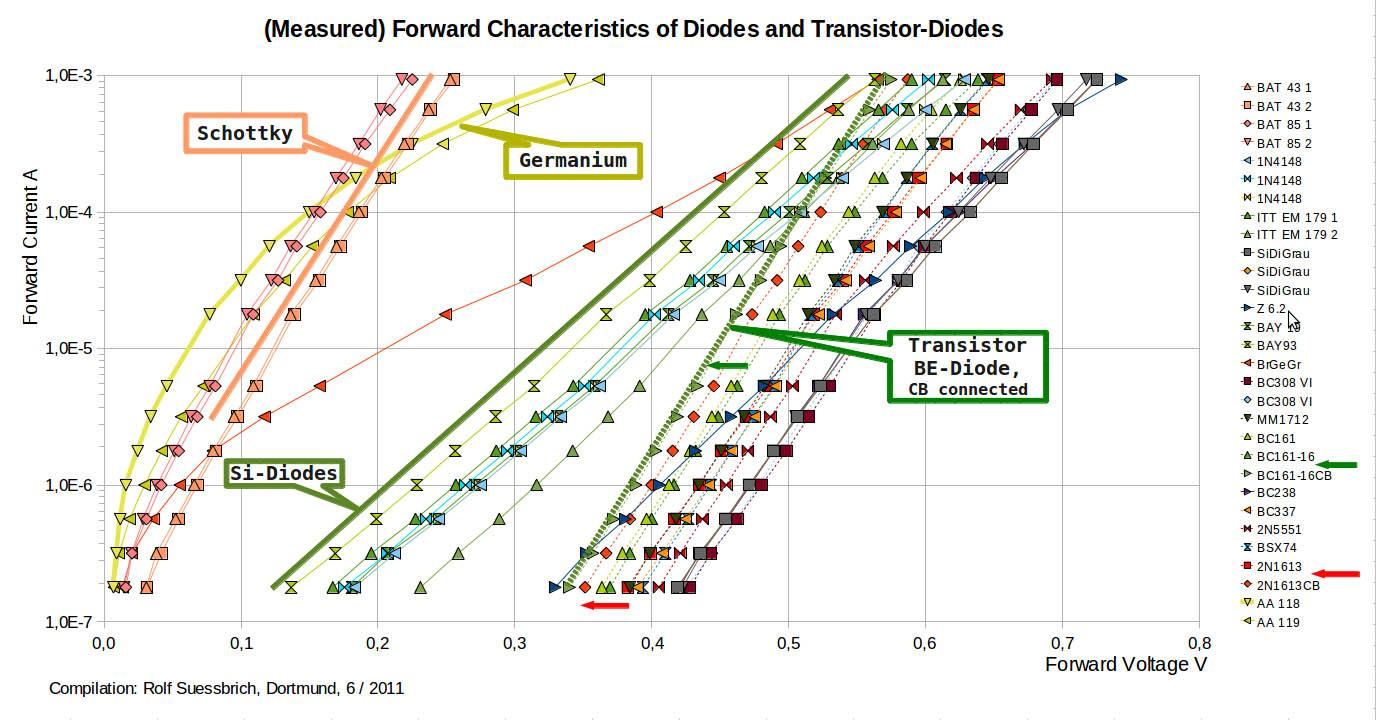 Diagram of several diodes for small currents (0.5µA - 1 mA). The curved yellow on the left are Germanium Diodes AA 118 and AA 119. From left to right we than have: Schottky-Diodes with steep slope, Si-Diodes (which are identified with the more oblique slope). Finally we have Base-Emitter-Diodes of Transistors. Note the more or less parallel slope for the for different technological solutions. The diagram proofs that for "Transistor-Diodes" the connection of Collector to Base is a mandatory (s. horizontal arrows). Only then we have the long direct line of I(U), which is used for temperature measurement or amplifiers with logarithmic or exponential behaviour.